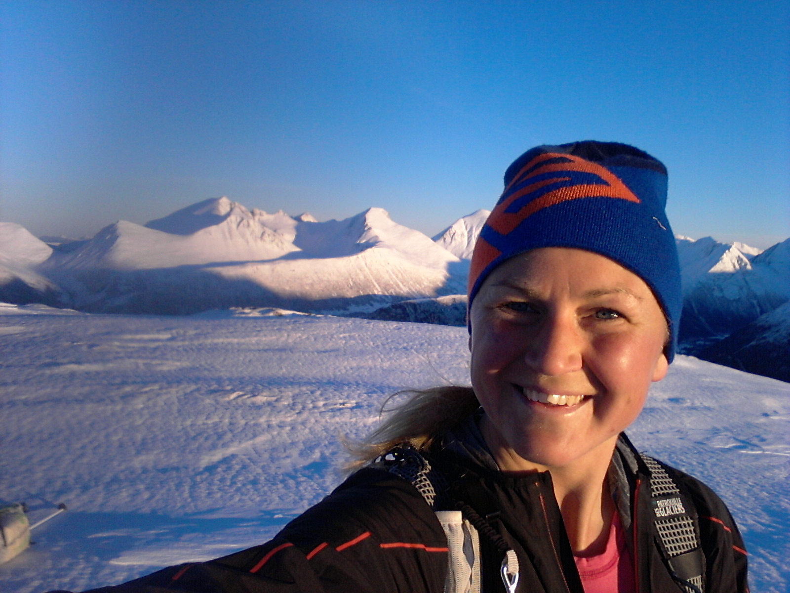 Ida Nilsson